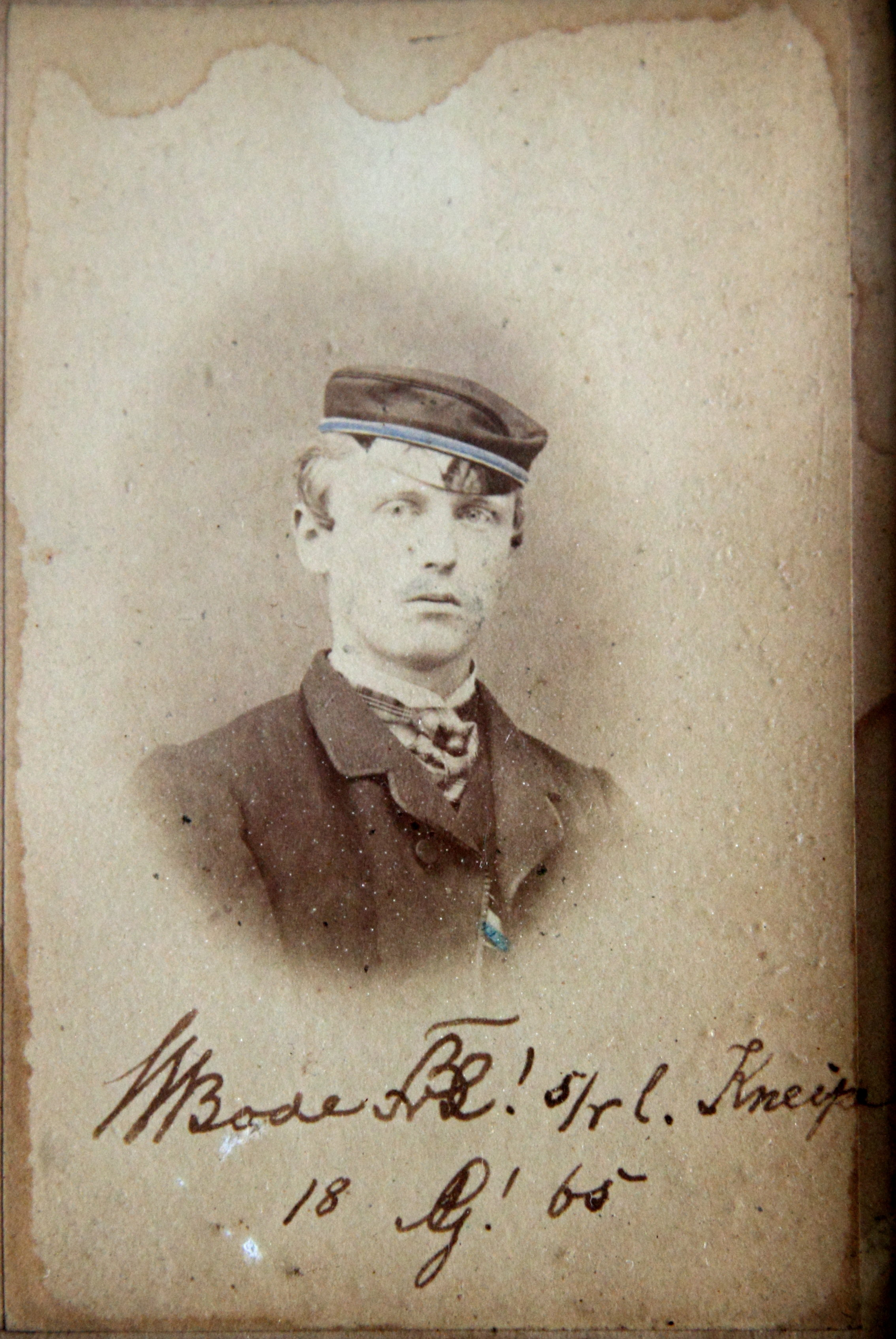 Wilhelm von Bode (1845-1929), German art historian and museum founder in Berlin, in his student times in Göttingen 1865, showing the colours of his student fraternity "Corps Brunsviga Göttingen"